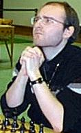 Matthew Sadler, April 1999 at Porz, German Chess Bundesliga 1998/99, Photographer Gerhard Hund.